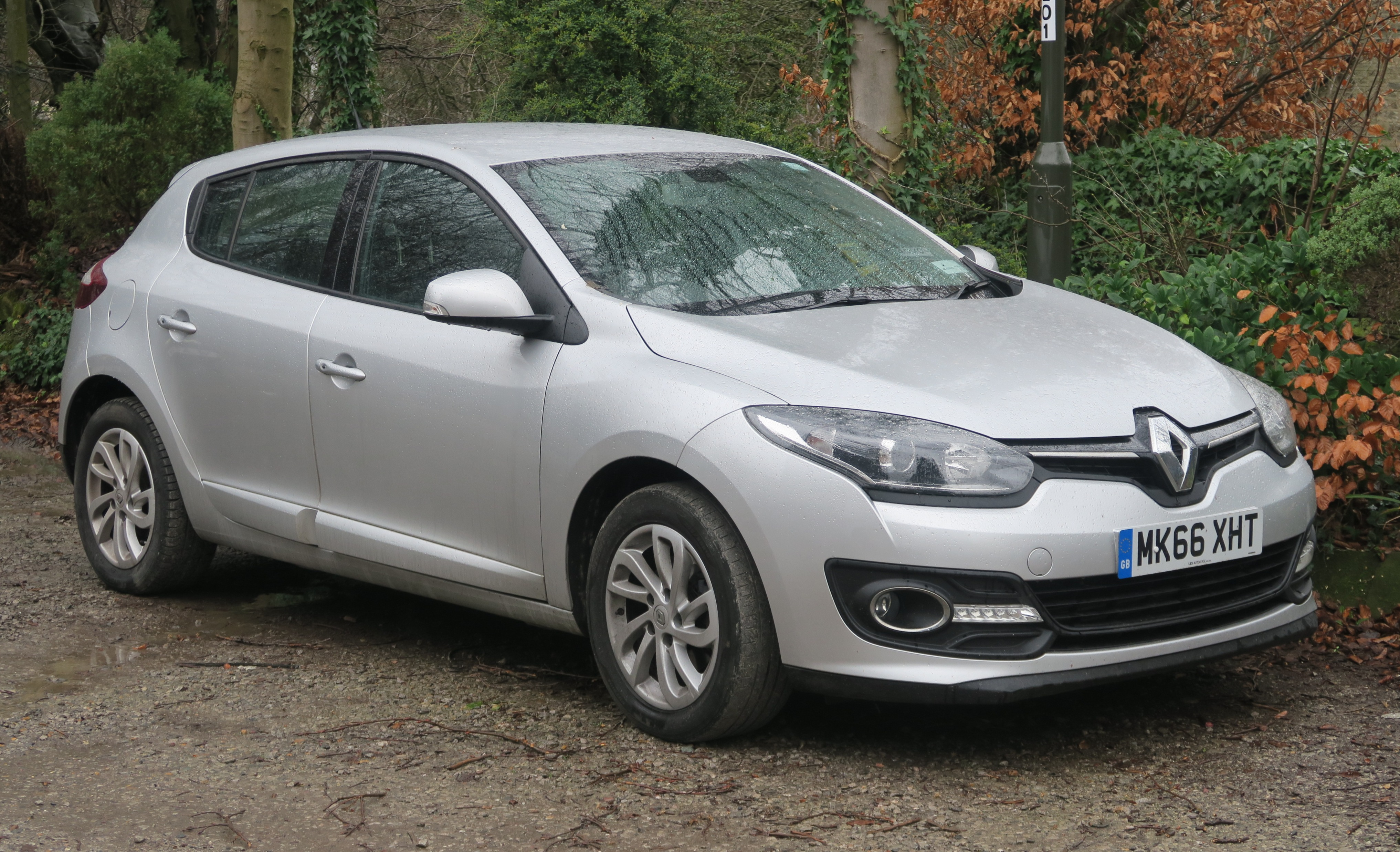 Renault Mégane III in Derbyshire